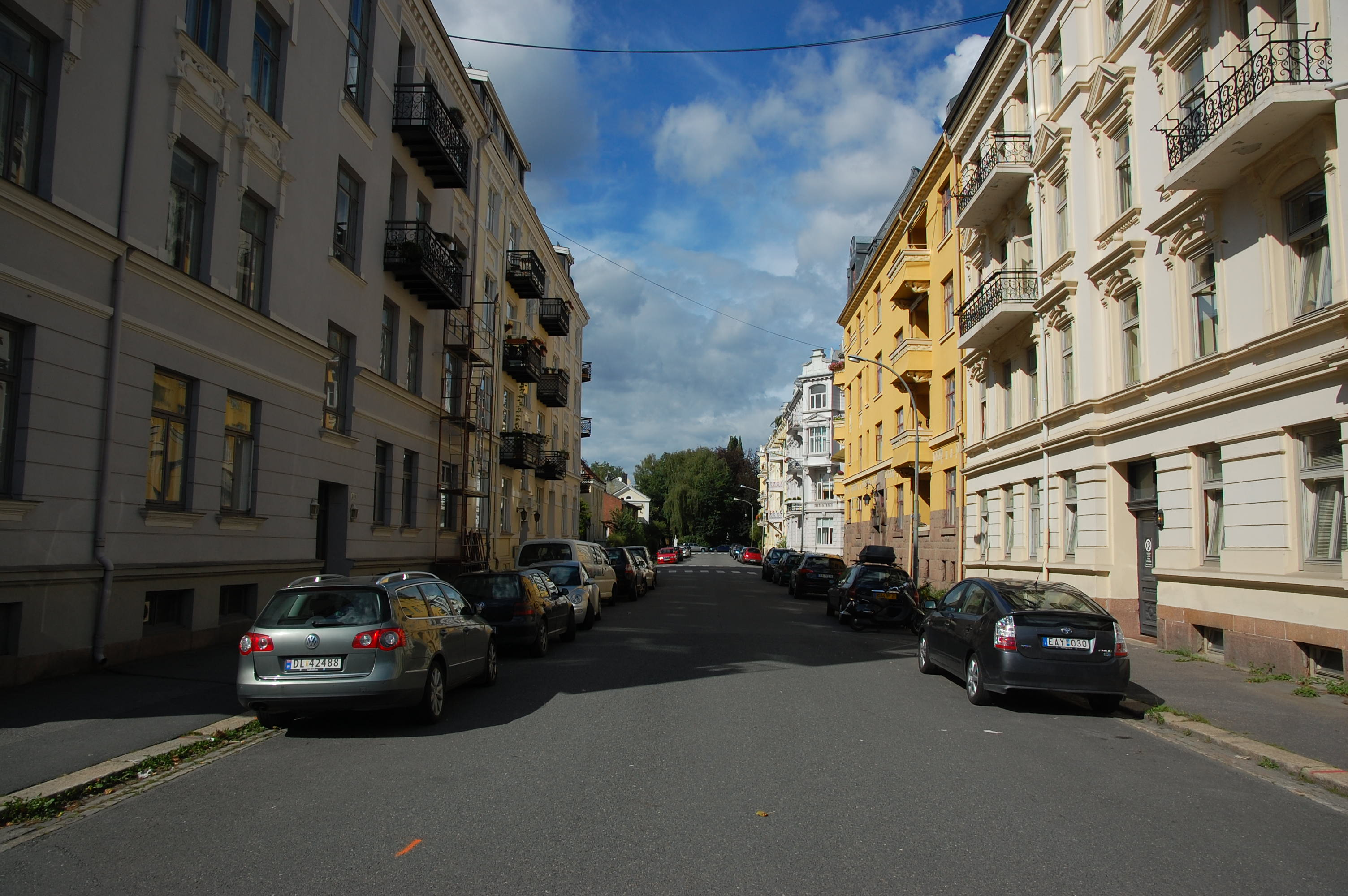 Tors gate in Oslo, Frogner, seen from Løvenskiolds gate.